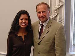 Conservative pundit Michelle Malkin with Republican Steve King. Originally sourced from: Retrieved ultimately from archival copy here on , as the original source was moved. As is simply using a non-copyrightable copy of the US Government image, we can as well.